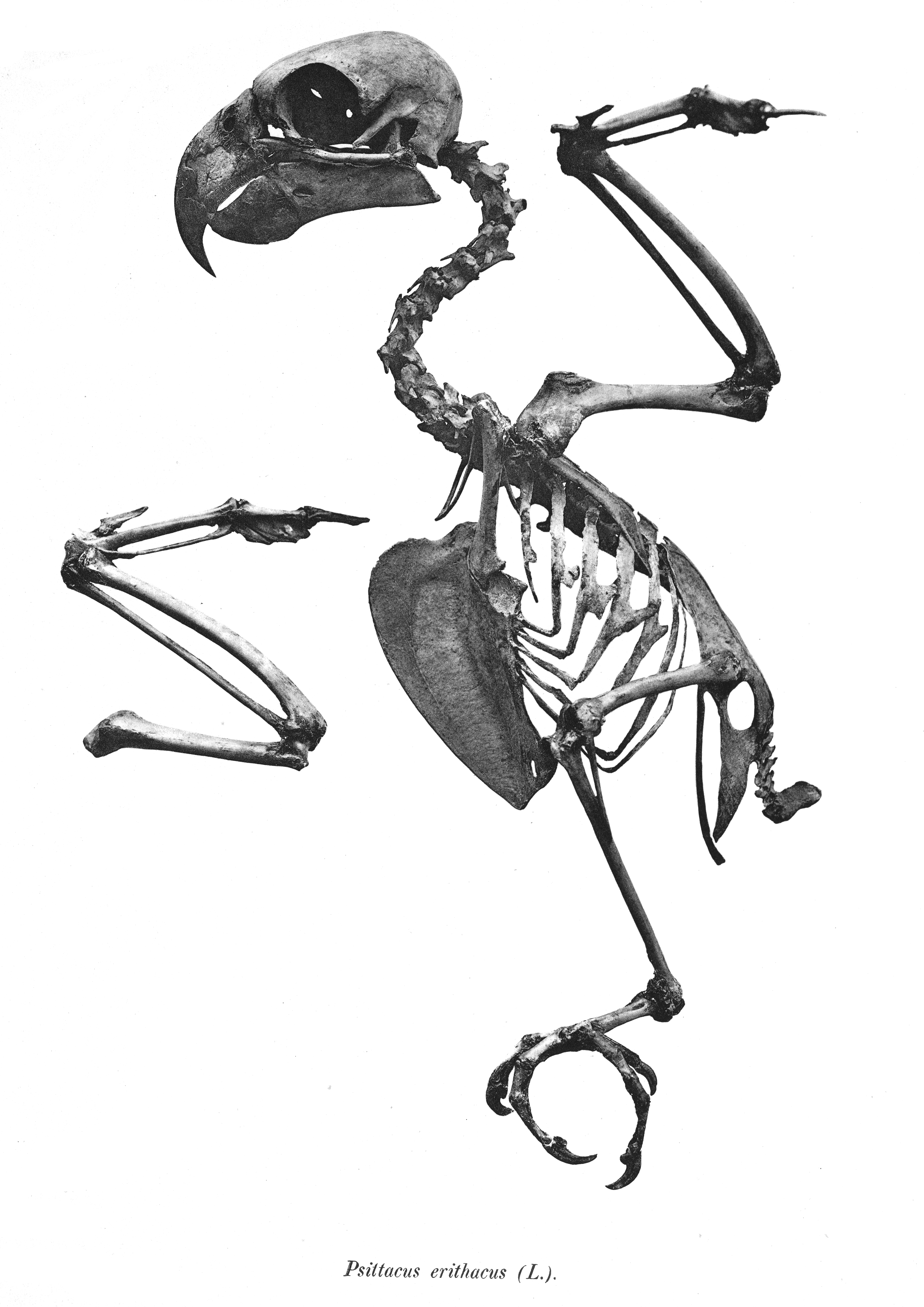 Psittacus erithacus